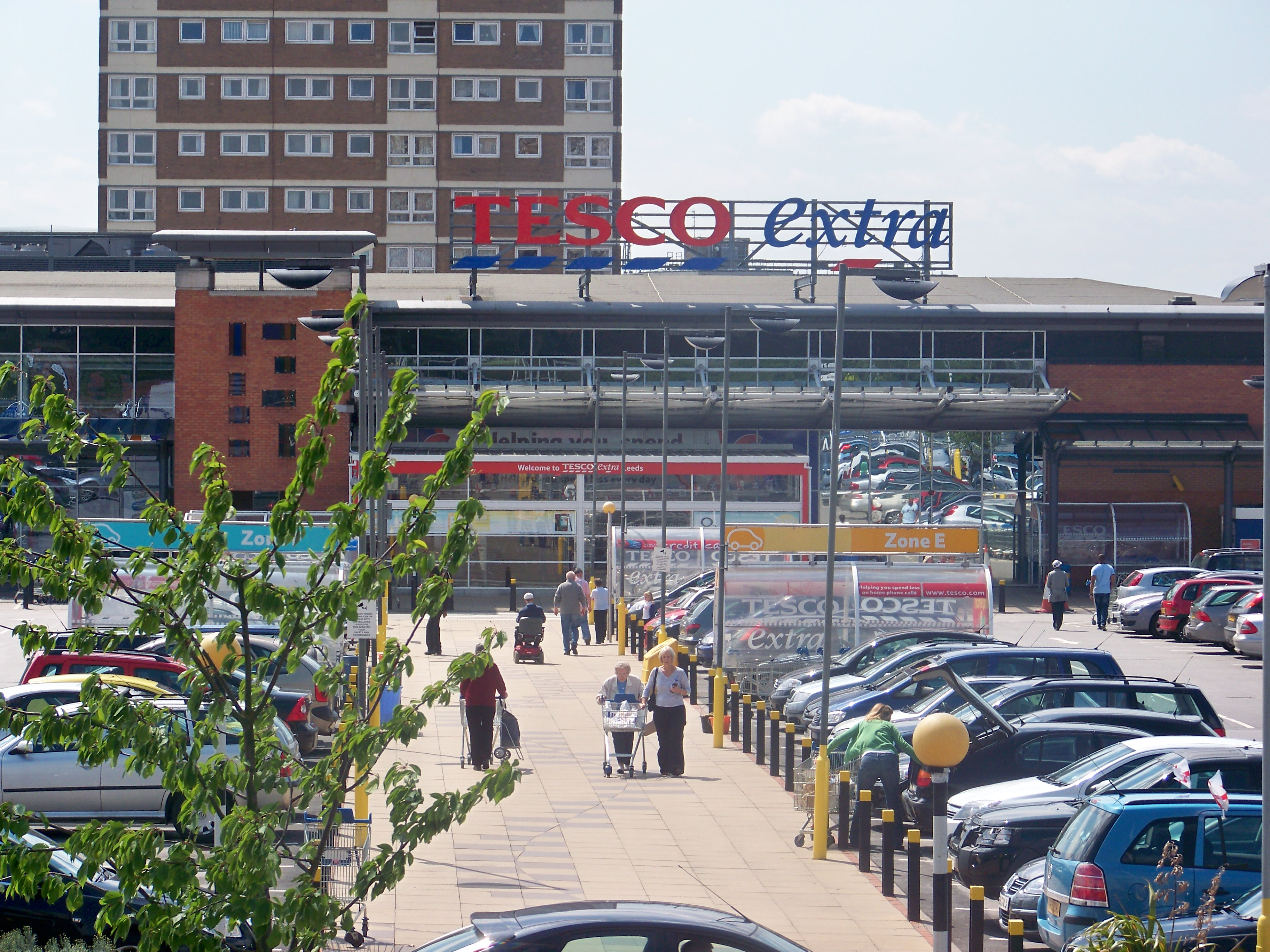 The entrance of Tesco at the Seacroft Green shopping centre in Seacroft, Leeds, West Yorkshire. Queensview can be seen behind. Taken on the afternoon of Friday the 11th of June 2010.